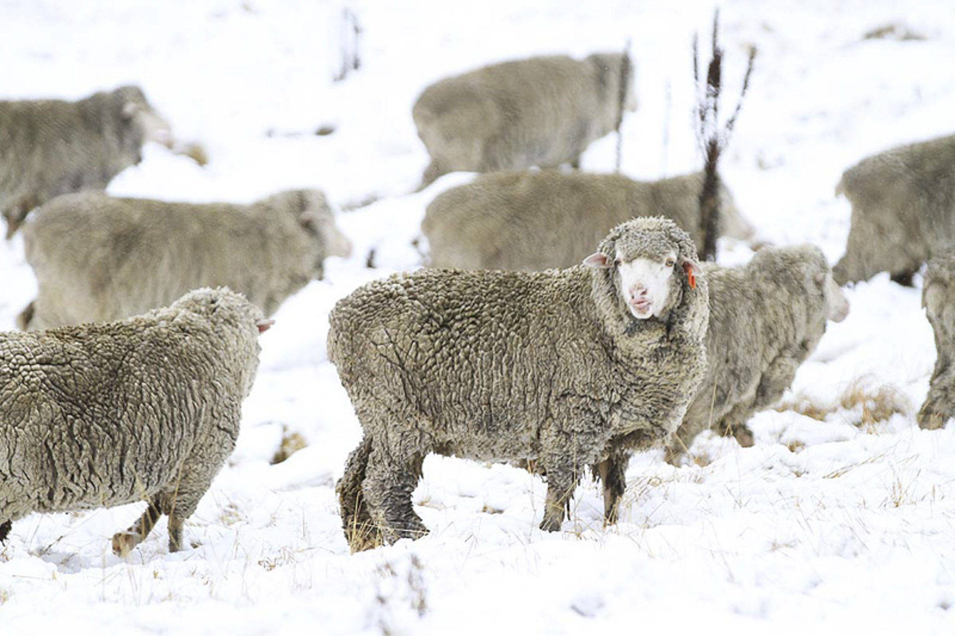 The New England Tablelands Merino are noted for their superfine fleeces and next to skin comfort in clothing. Merino fibres provide excellent thermal qualities in cold and warm temperatures.